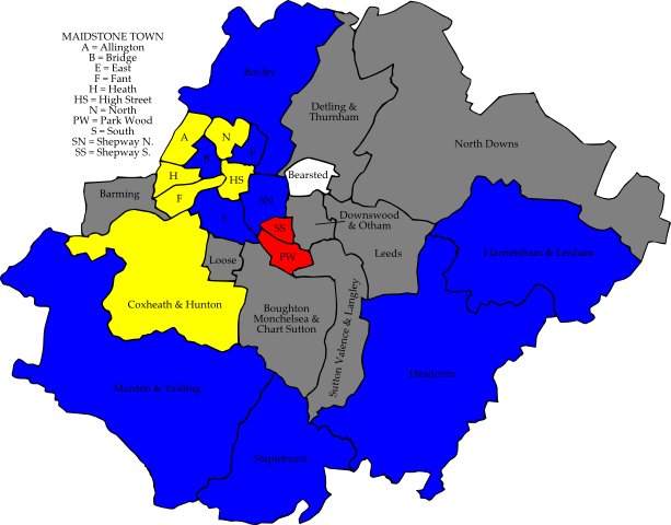 A map of the results of the 2006 Maidstone Council election. Colour legend by wards won: Conservative party Liberal Democrats Labour party Independent Wards in grey were not contested in 2006.